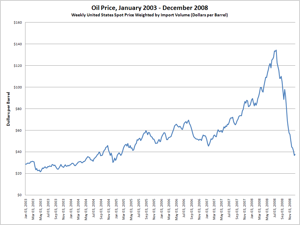 Chart showing the weekly United States spot price of crude oil from January 2003 to December 2008 in USD. Chart generated in Microsoft Excel 2007. Data from (United States Department of Energy) Shown in current prices.